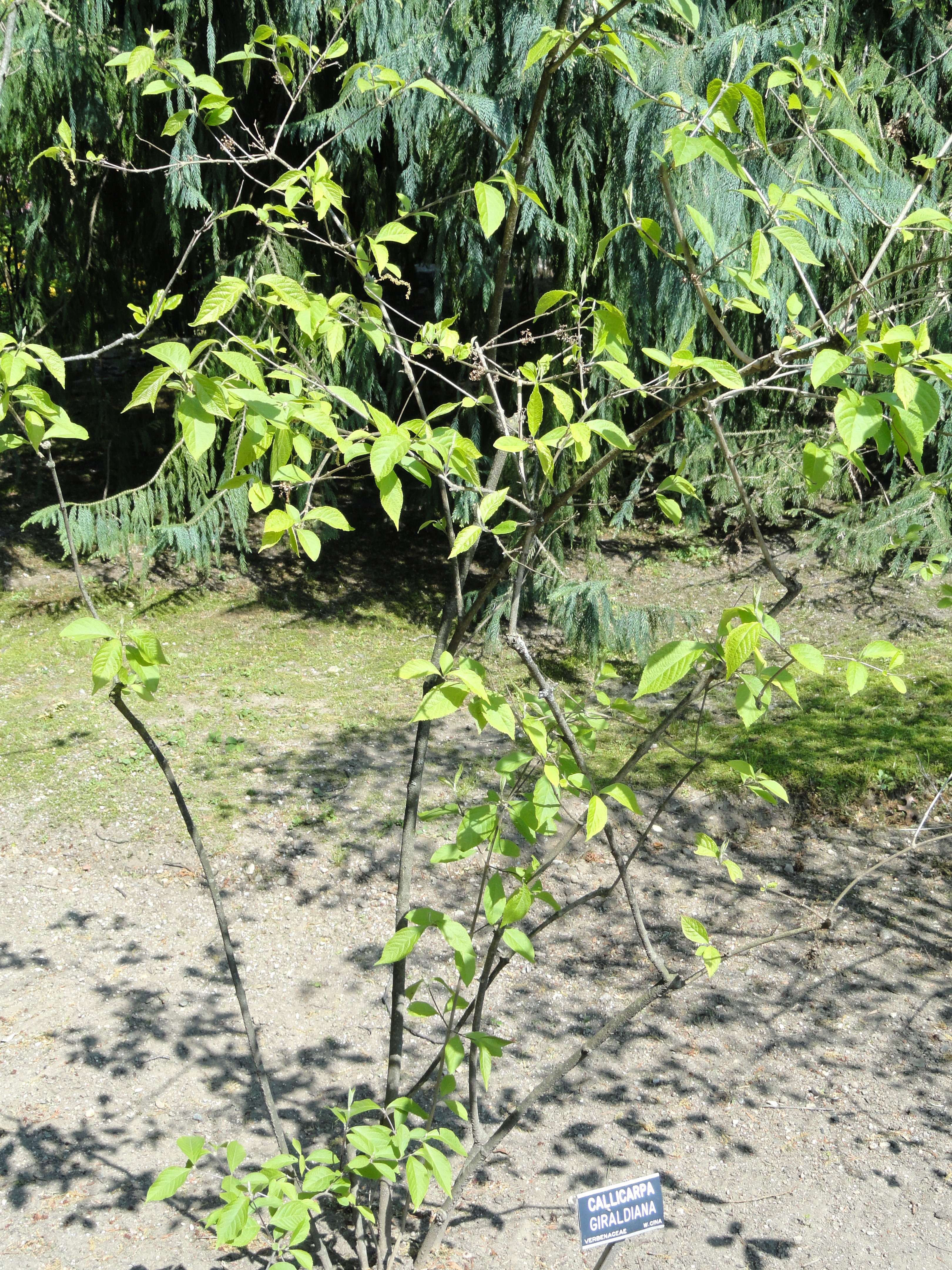 Callicarpa bodinieri (= Callicarpa giraldiana). Botanical specimen on the grounds of the Villa Taranto (Verbania), Lake Maggiore, Italy.